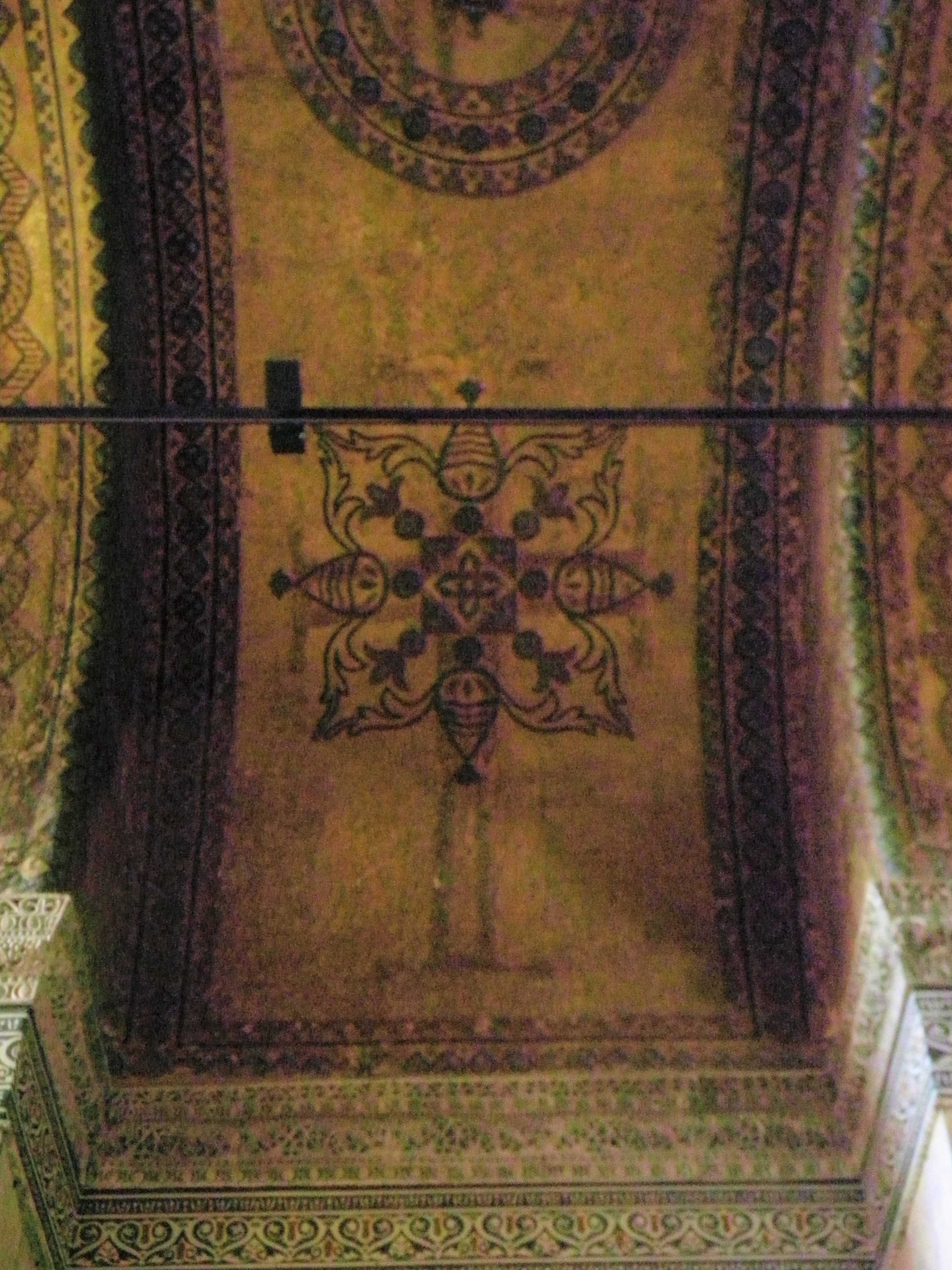 Ceiling decorations in Hagia Sofia: Original Christian fresco of the church are still visible through the Muslim (aniconic) decoration.